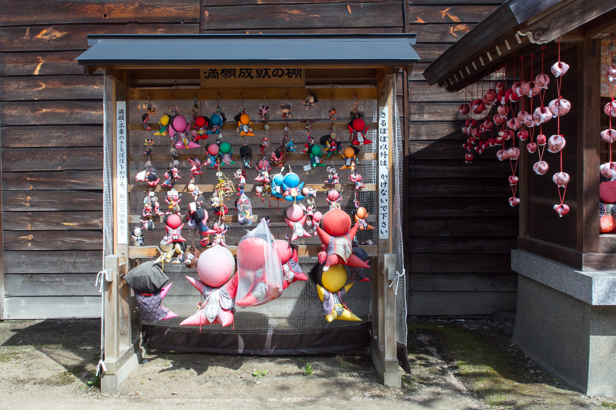 Sarubobo at Hida Kokubun-ji, Takayama, Japan